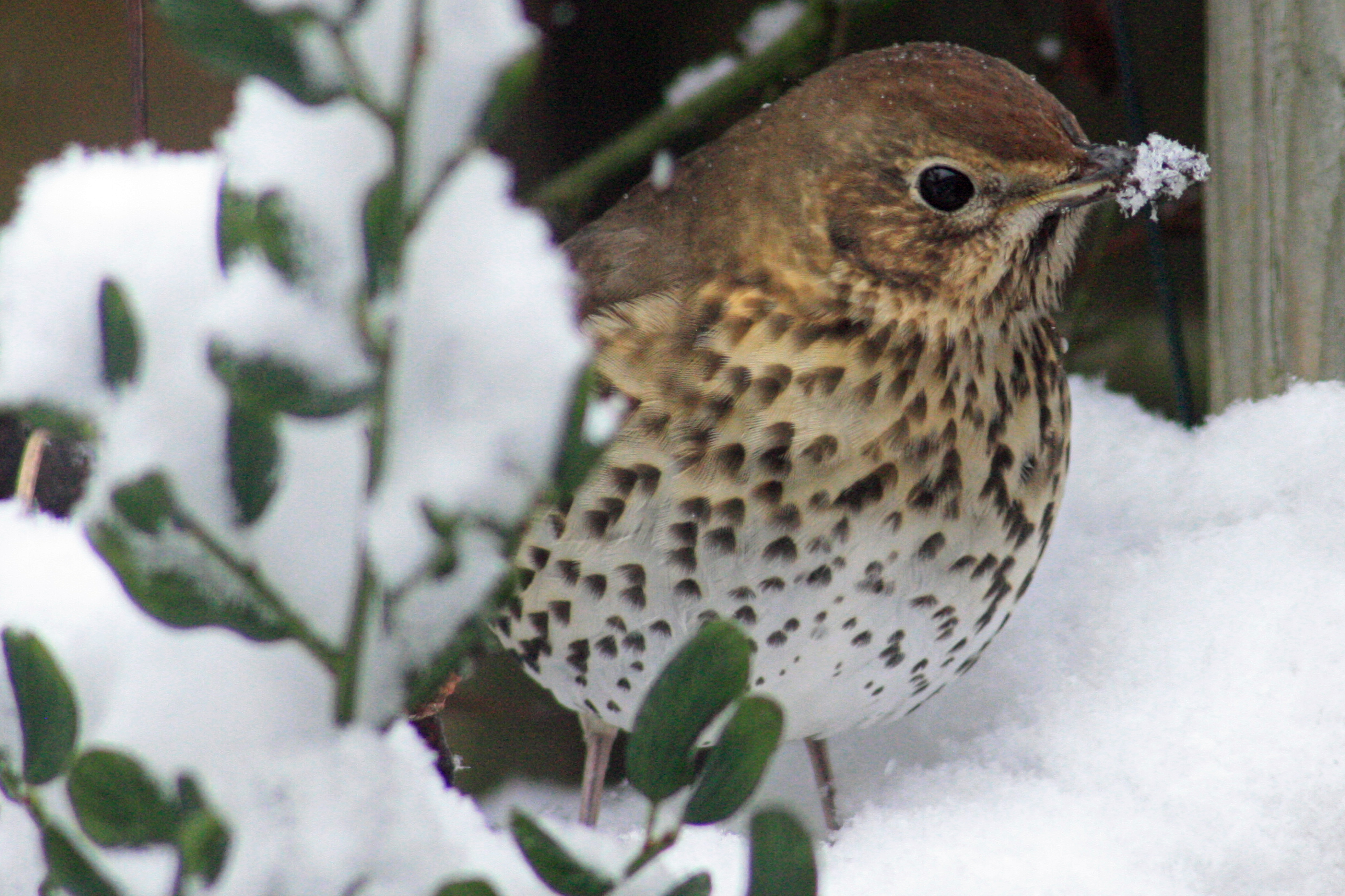 The Song Thrush (Turdus philomelos) is a thrush that breeds across much of Eurasia. It is also known in English dialects as throstle or mavis.